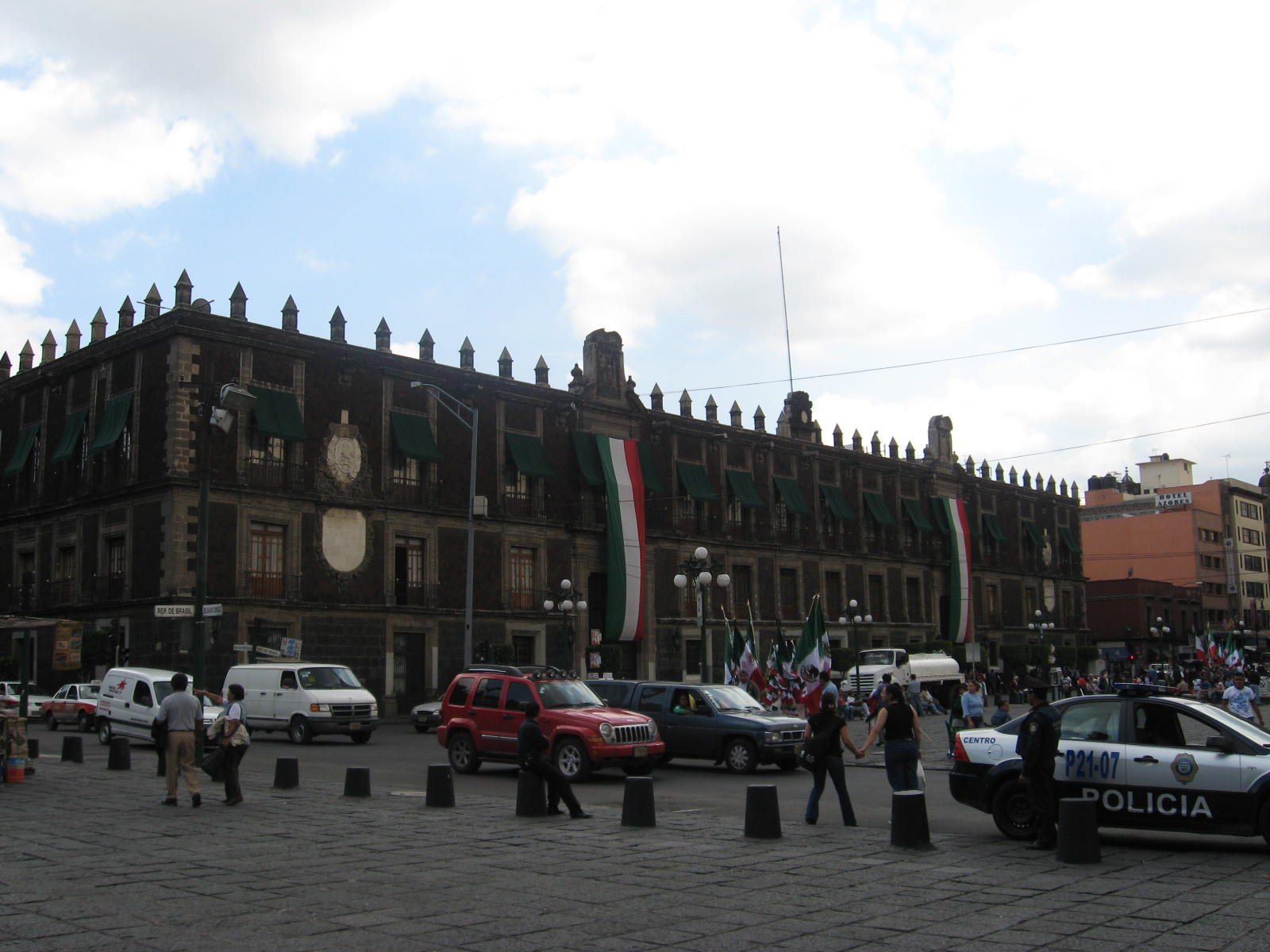 The Antigua Aduana (Old Customs) building on Republica de Brasil just off the Plaza Santo Domingo in the Centro of Mexico City